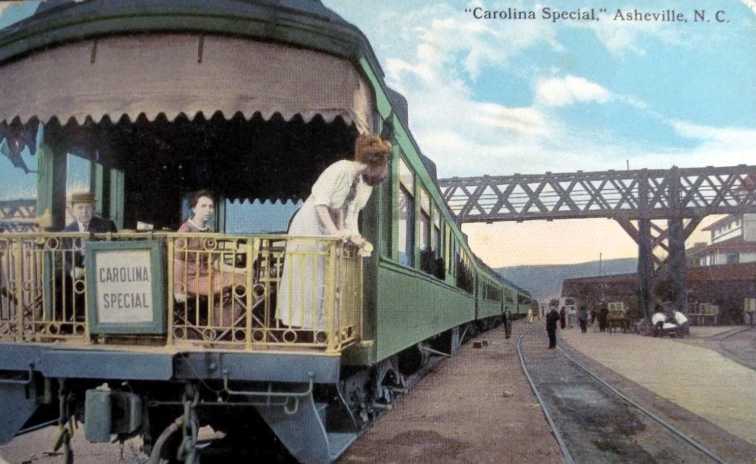 Postcard photo of the Carolina Special. Southern Railway operated this train from 1911 to 1968; it traveled between Cincinnati, Ohio and the Carolinas.